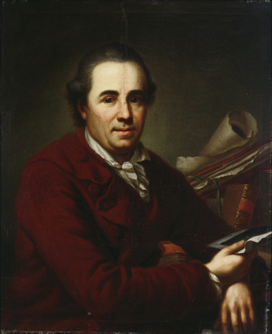 Portrait of Michael Huber